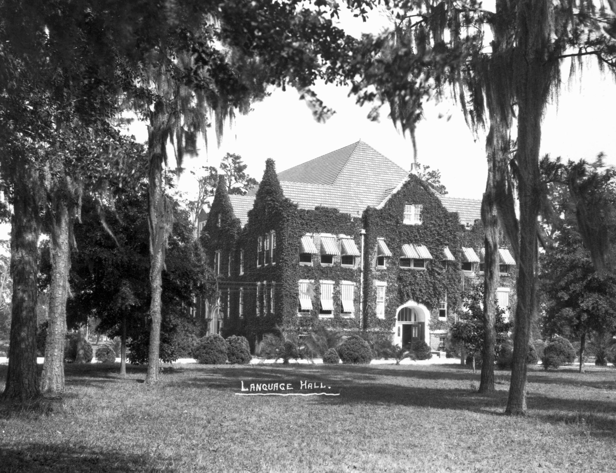 A historic photo of Anderson Hall